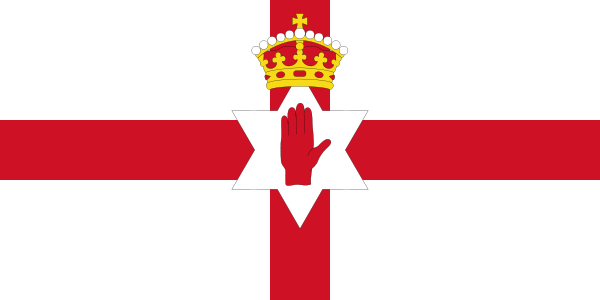 The former flag of the Executive Committee of the Privy Council of Northern Ireland, from 1953-1972. This flag has had no official status since 1972 and is widely regarded as the emblem of one community only. It should not be used to represent present day Northern Ireland geographically or as a political entity.